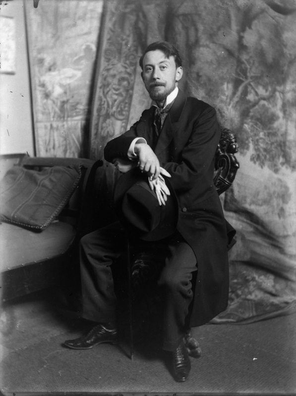 Self-portrait of Catalan painter Baldomer Gili i Roig. Taken c. 1900